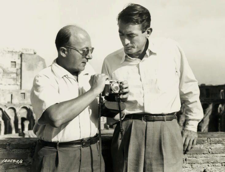 cinematographer Franz Planer & Gregory Peck on the set of Roman Holiday - publicity still (cropped)